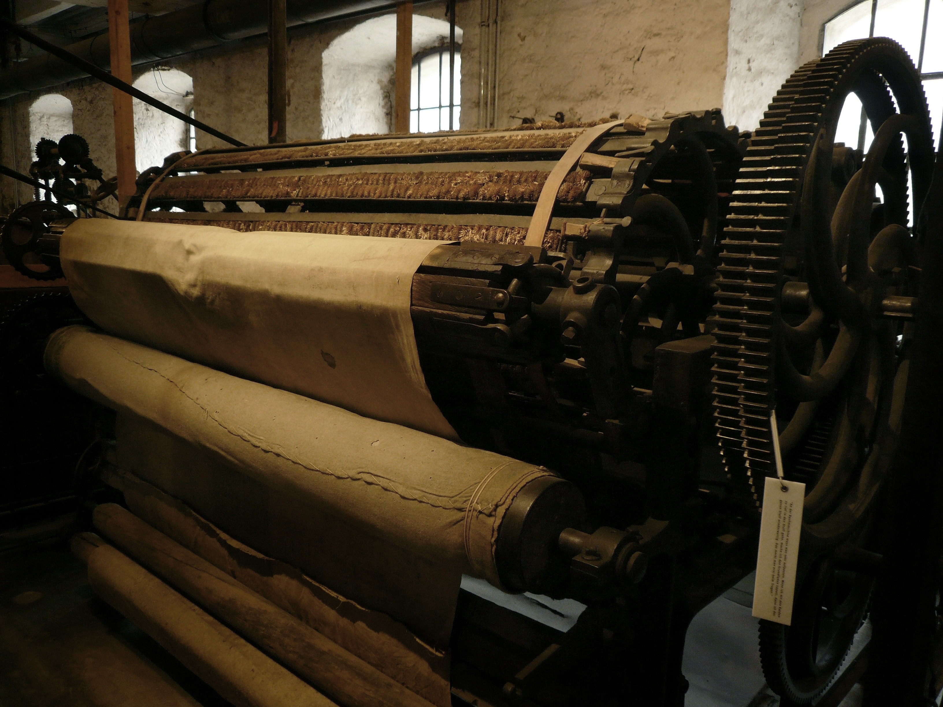 Raising machine (produced by Fa. Ernst Gessner, Aue/A. Moser & Cie, Aachen, purchased 1928) at the LVR Museum of Industry - Mueller Cloth Mill. Carding thistles raised the damp fibres once again creating a robust surface.